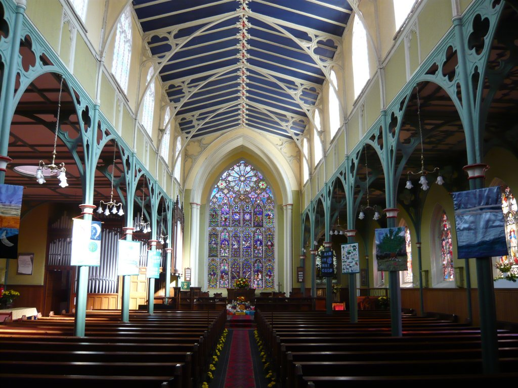 Interior of St Michael's Church, Aigburth showing the cast-iron framework arches.